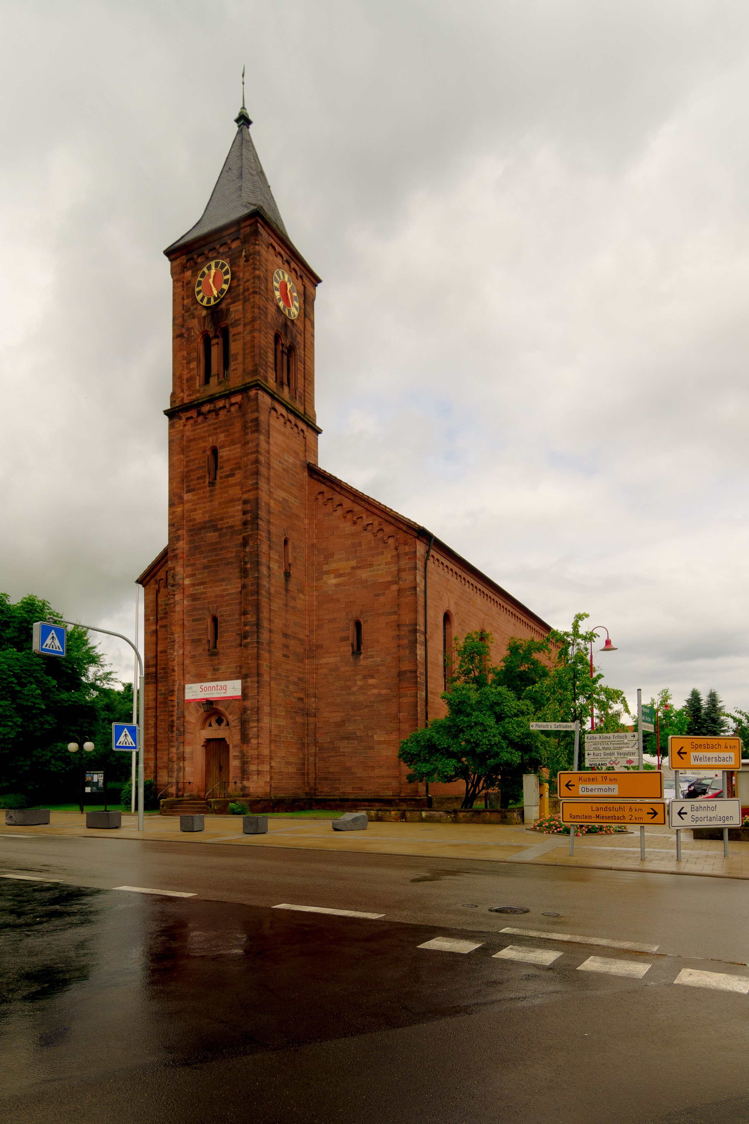 Steinwenden, town center: Evangelical Church, built 1852.